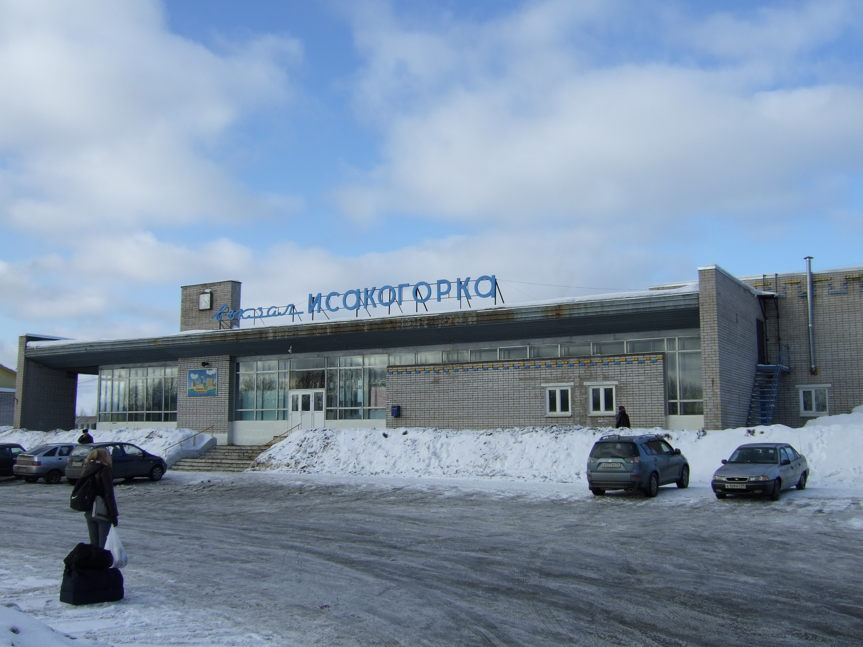 Issakogorka trainstation